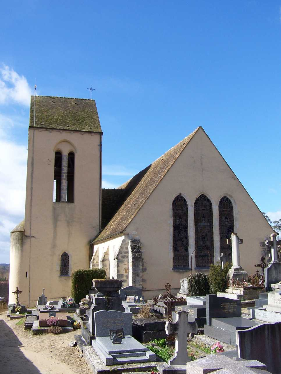 Église of Saint-Léger-en-Yvelines (Yvelines, France)